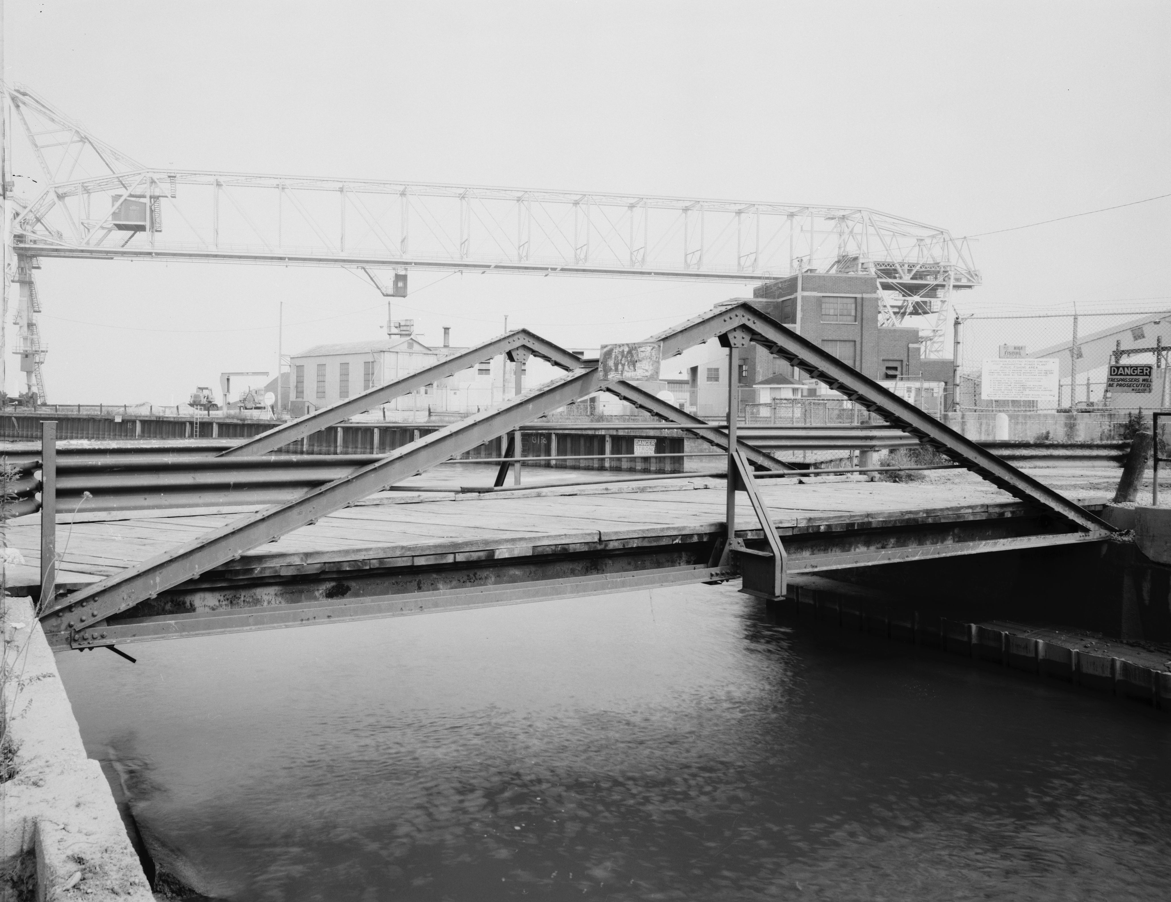 Example of a King post truss, Sauk Creek Bridge, Port Washington, WI